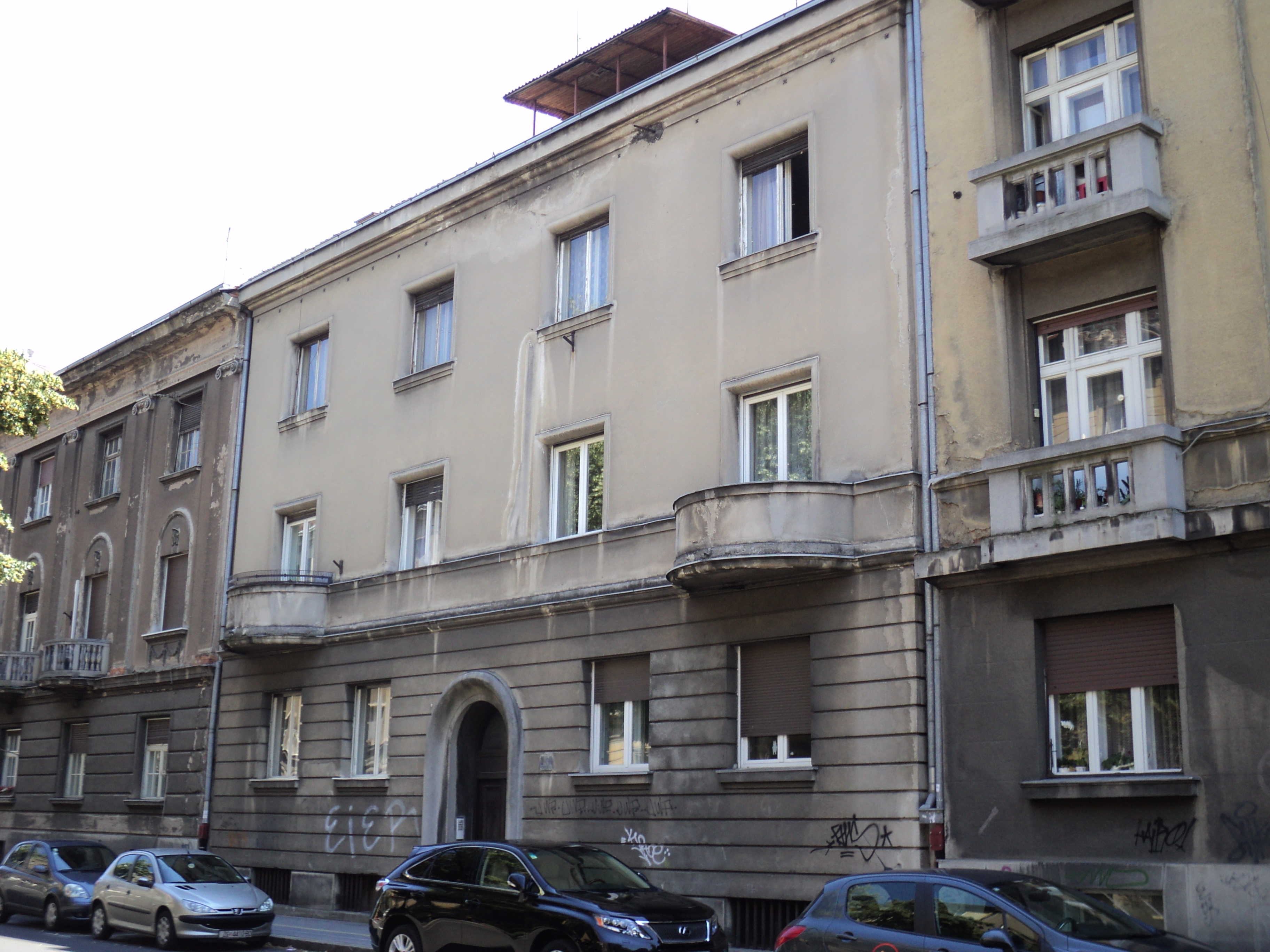 Residental building in Klaićeva street 17, Zagreb.